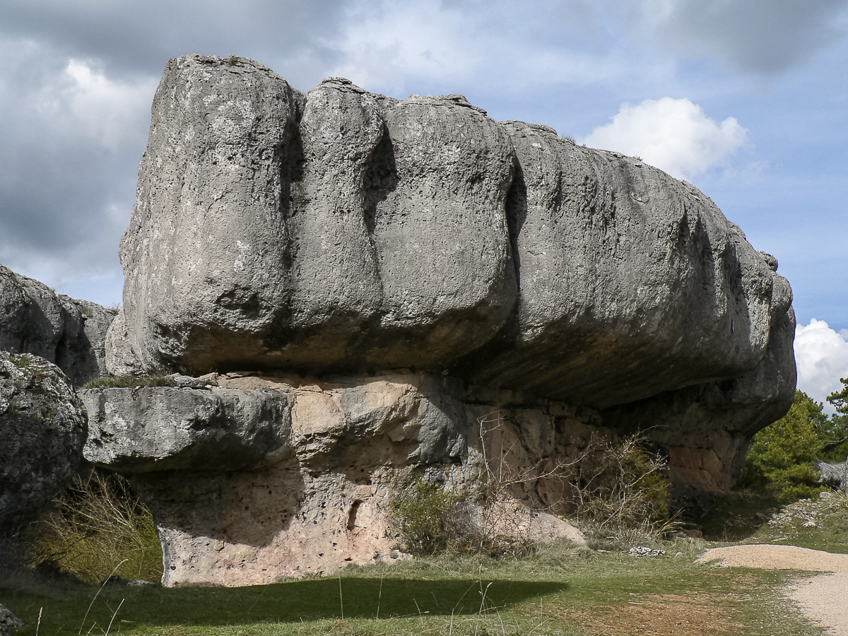 09042009 164759 CEC 0091 This is a photography of a Special Area of Conservation in Spain with the ID: ES4230014. Natura2000 entry, EEA entry